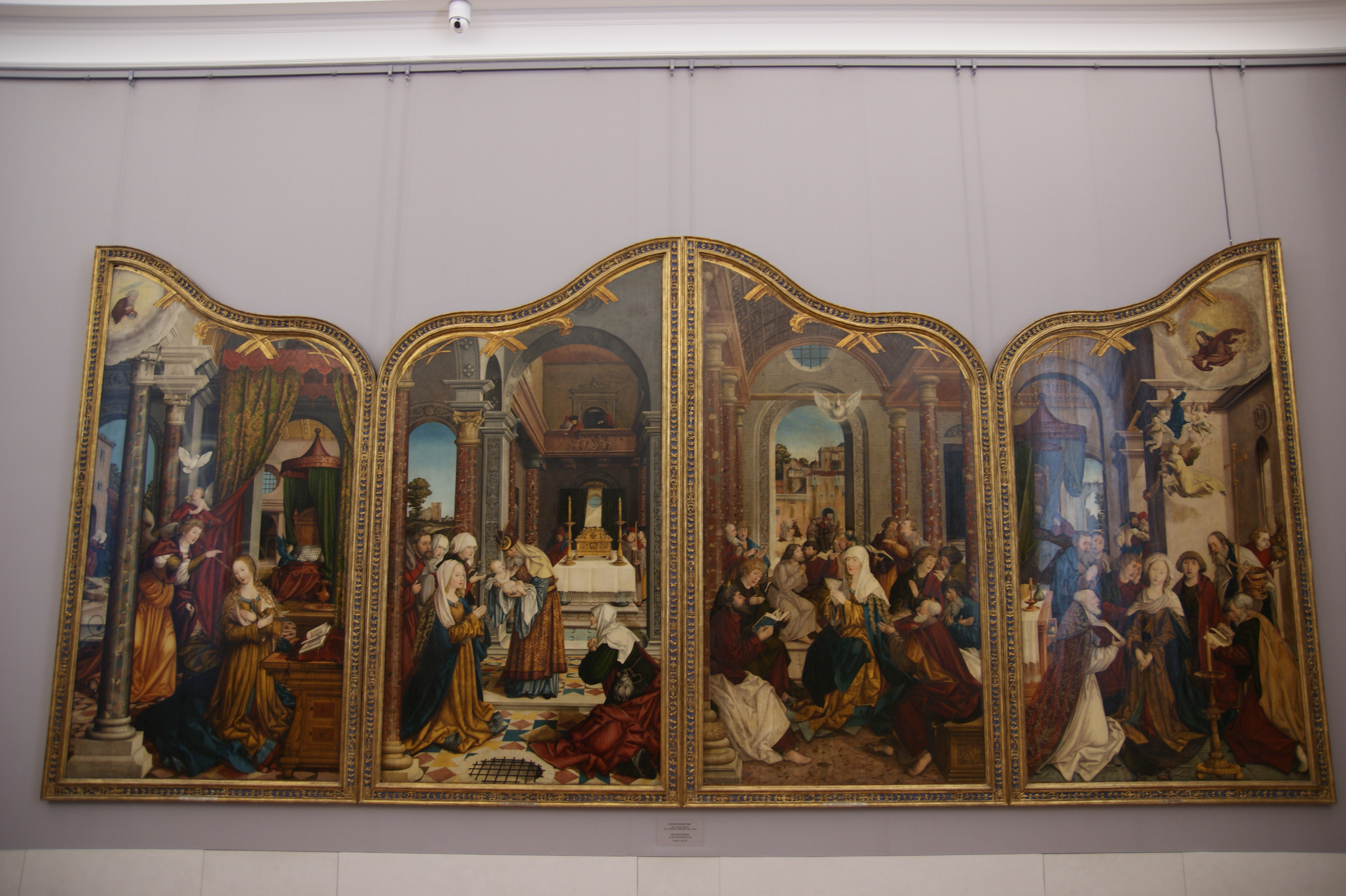 Der Hochaltar zu Wettenhausen bei Ulm Alte Pinakothek Native nameAlte PinakothekParent institutionBavarian State Painting CollectionsLocationMaxvorstadt, GermanyCoordinates48° 08′ 54″ N, 11° 34′ 12″ E Established1836Web page control : Q154568 VIAF: 142985185 ISNI: 0000 0001 2173 5653 ULAN: 500303270 LCCN: n50061231 NLA: 35389935 WorldCat institution QS:P195,Q154568